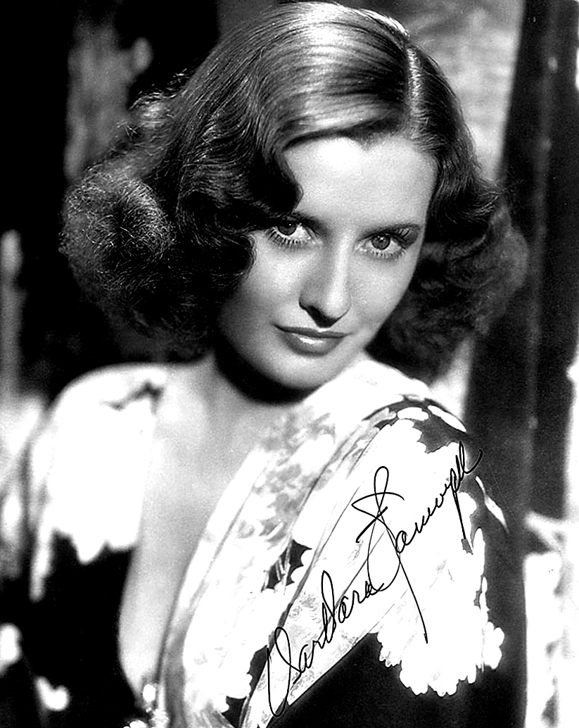 Signed publicity photo of Barbara Stanwyck